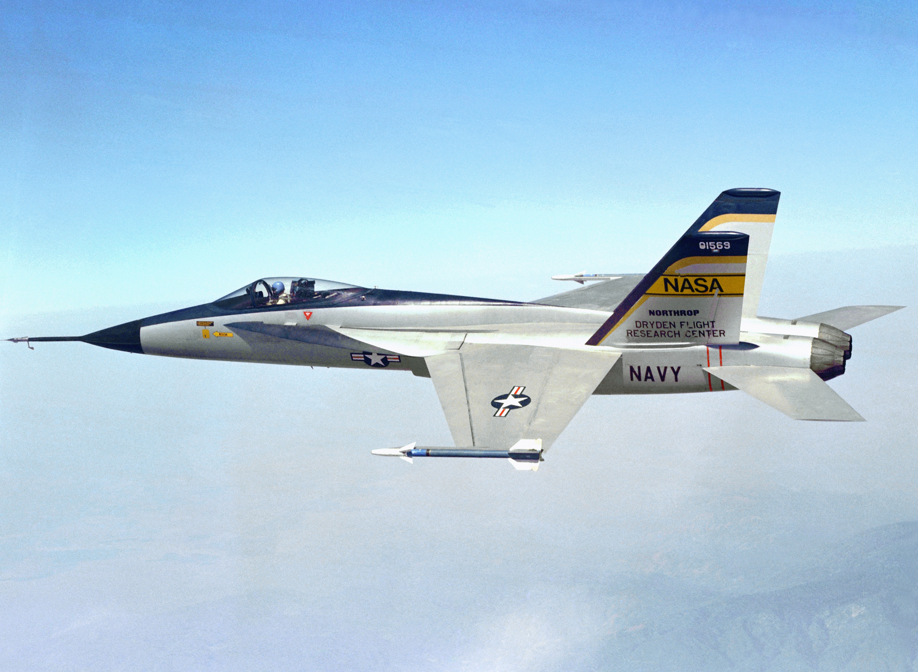 The Northrop Aviation YF-17 technology demonstrator aircraft in flight during a 1976 flight research program at NASA’s Dryden Flight Research Center, Edwards, California.